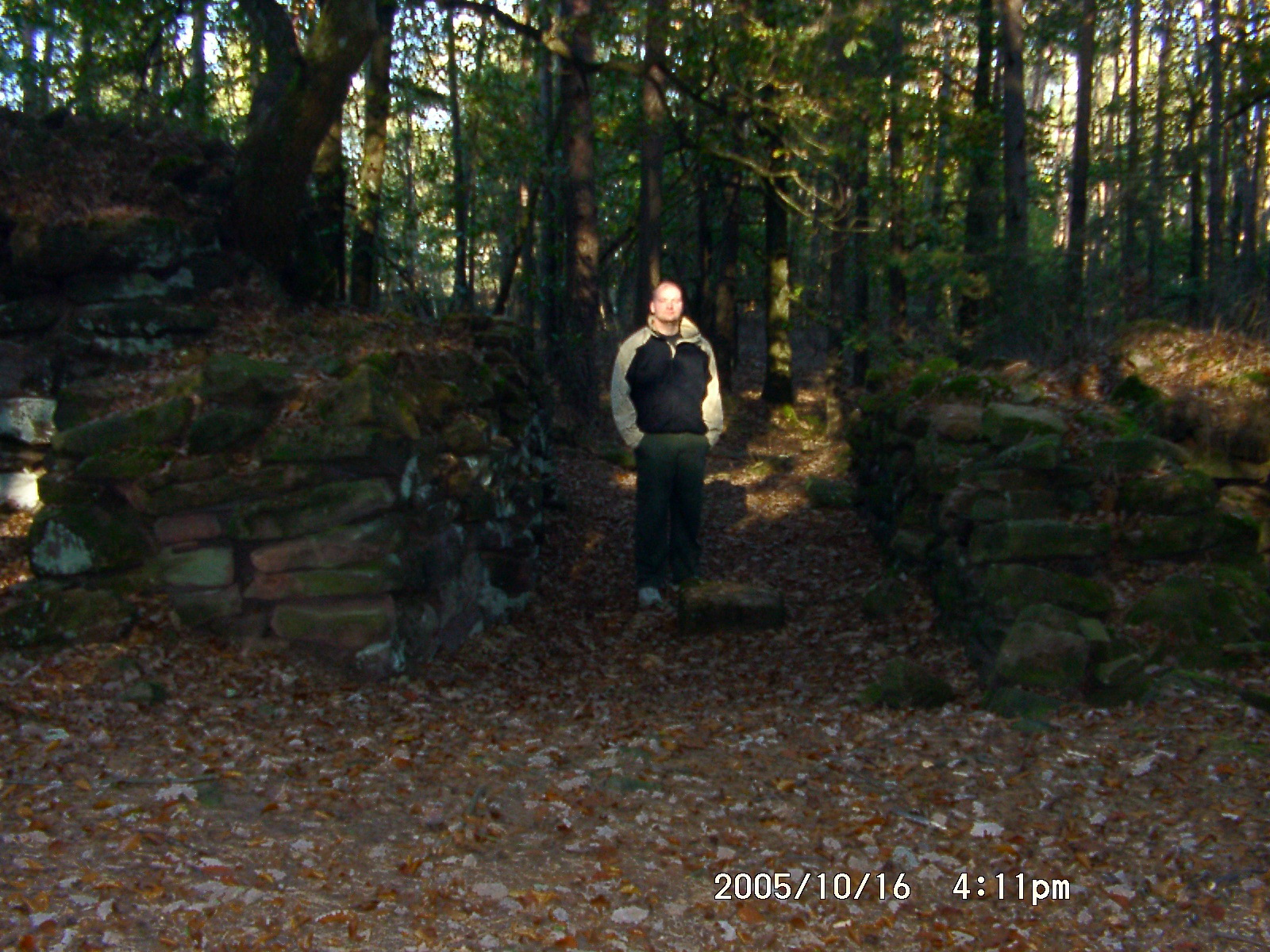 My friend Martin standing in the remains of the gate of Heidenschuh-Castle.